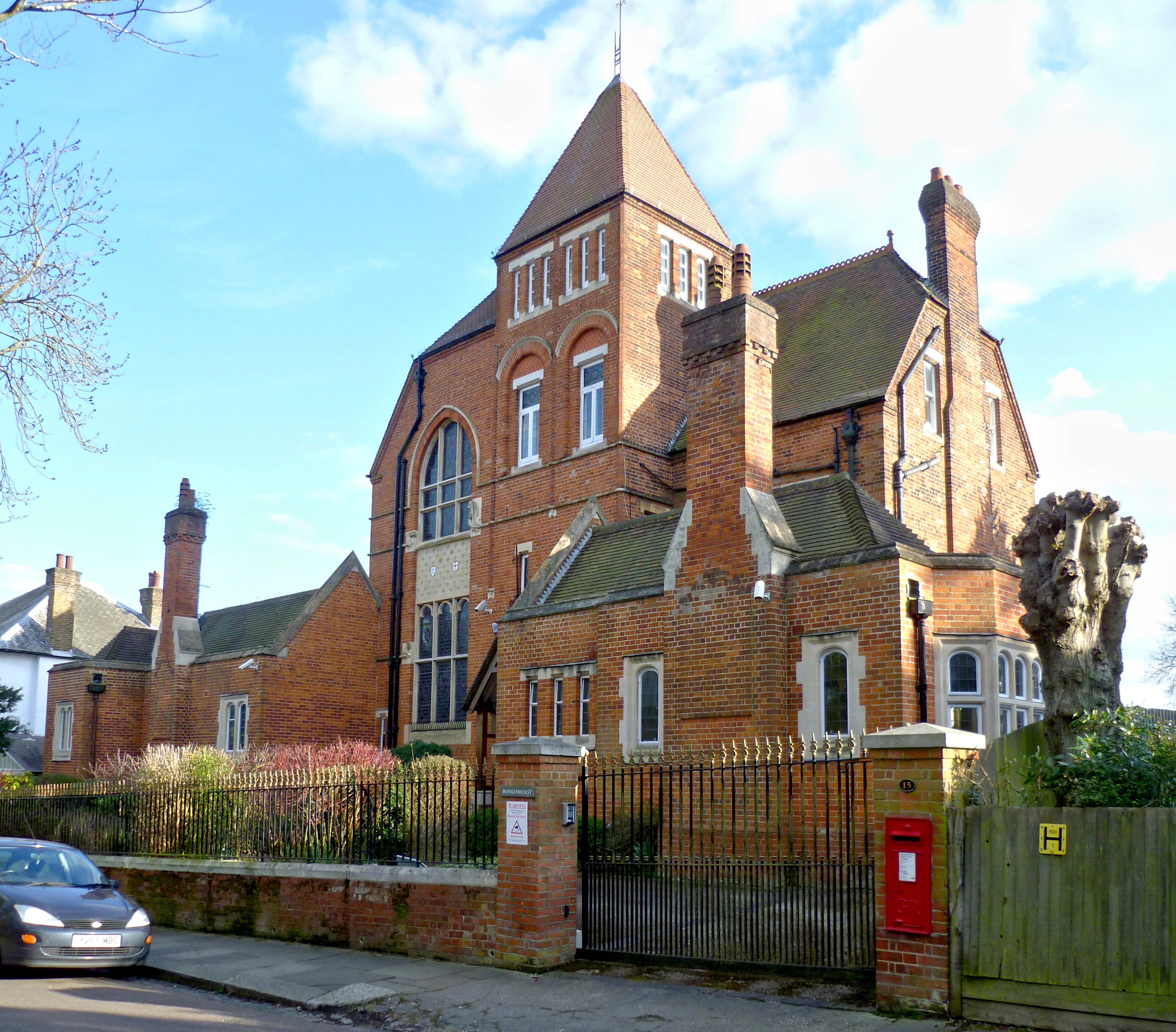 Monkenhurst